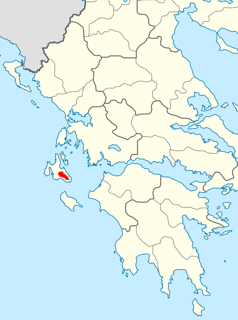 Robola Wine Region